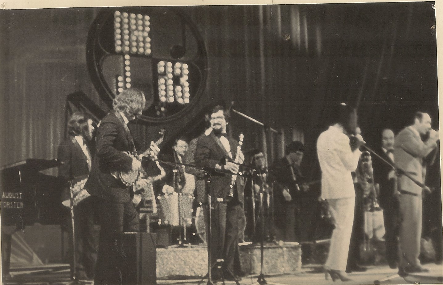 Uralskiy dixieland at Moscow Jazz Festival, 1983. Non-professional photo